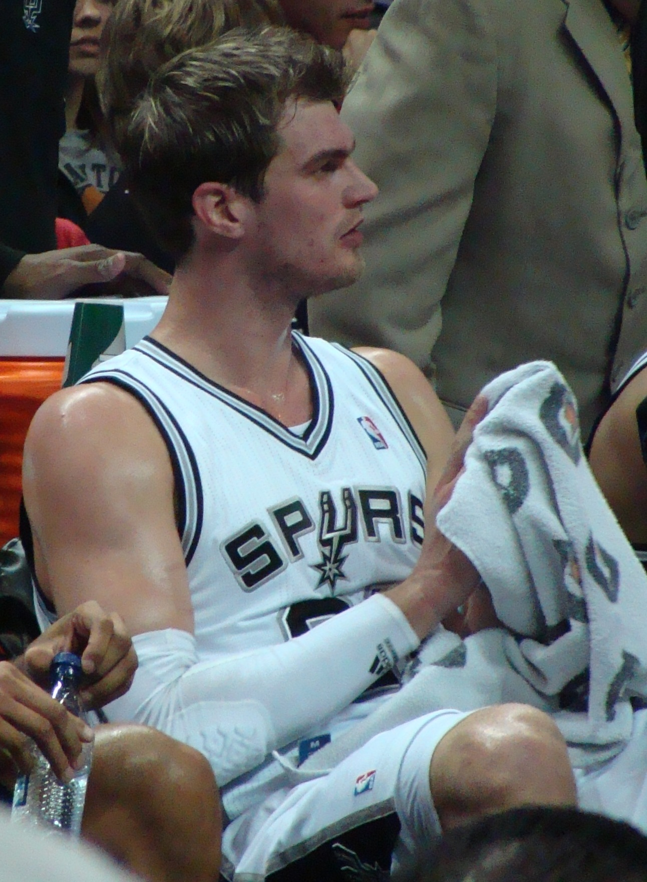 Tiago Splitter of the San Antonio Spurs, during the Spurs-Nuggets match on 12-22-2010 in San Antonio, TX.